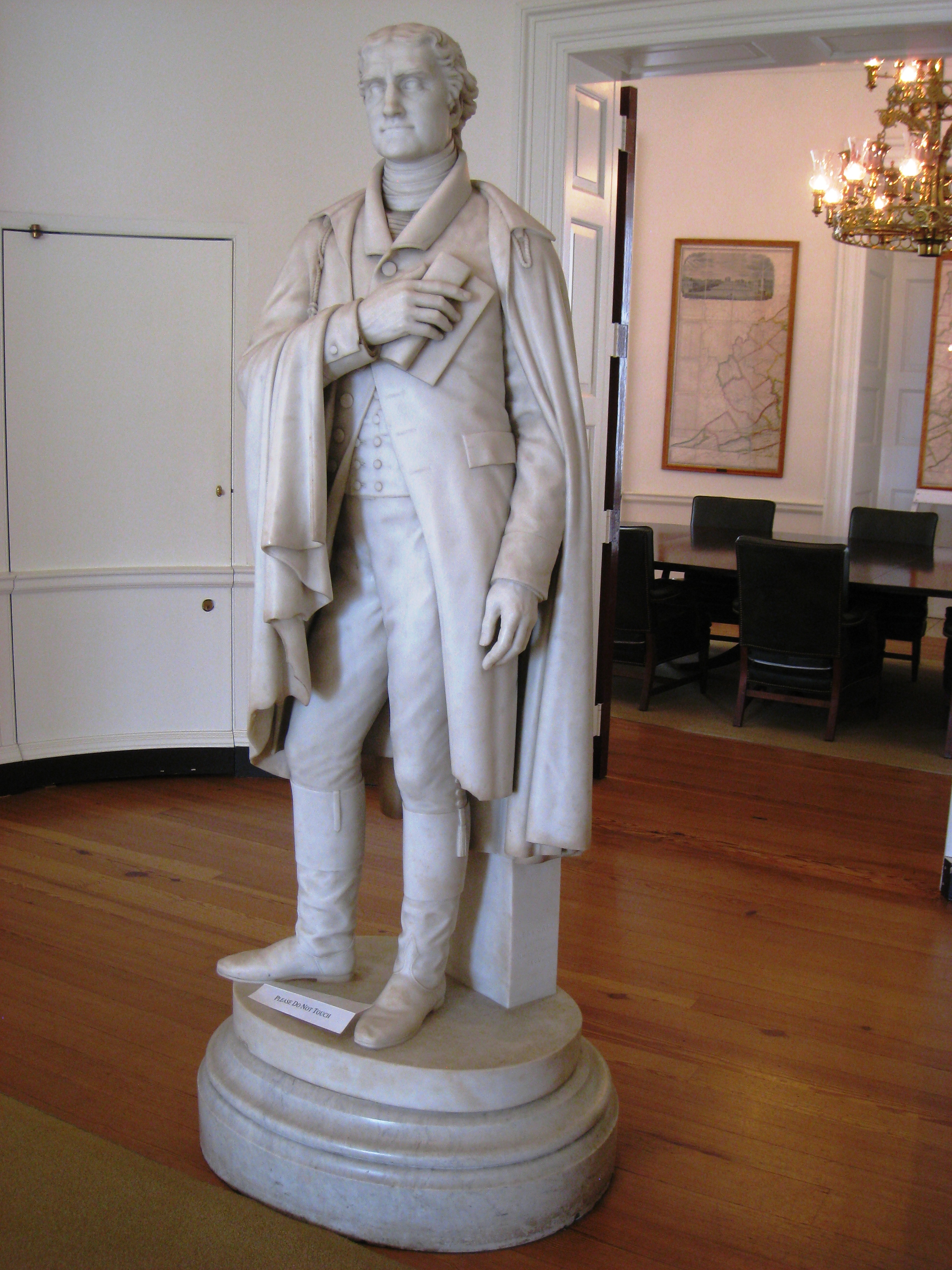 Statue of Thomas Jefferson by Alexander Galt, 1861. Located in the Rotunda, University of Virginia, Charlottesville, Virginia, USA.